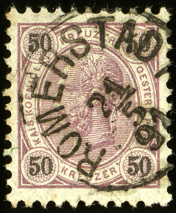 Austrian KK 50 kreuzer stamp, cancelled at RÖMERSTADT (Moravia) in 1891.